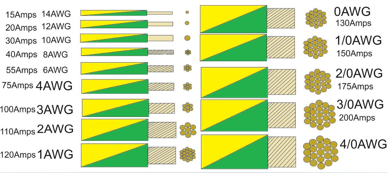 AWG/mm wire size grounding conductors TU-GO/EF